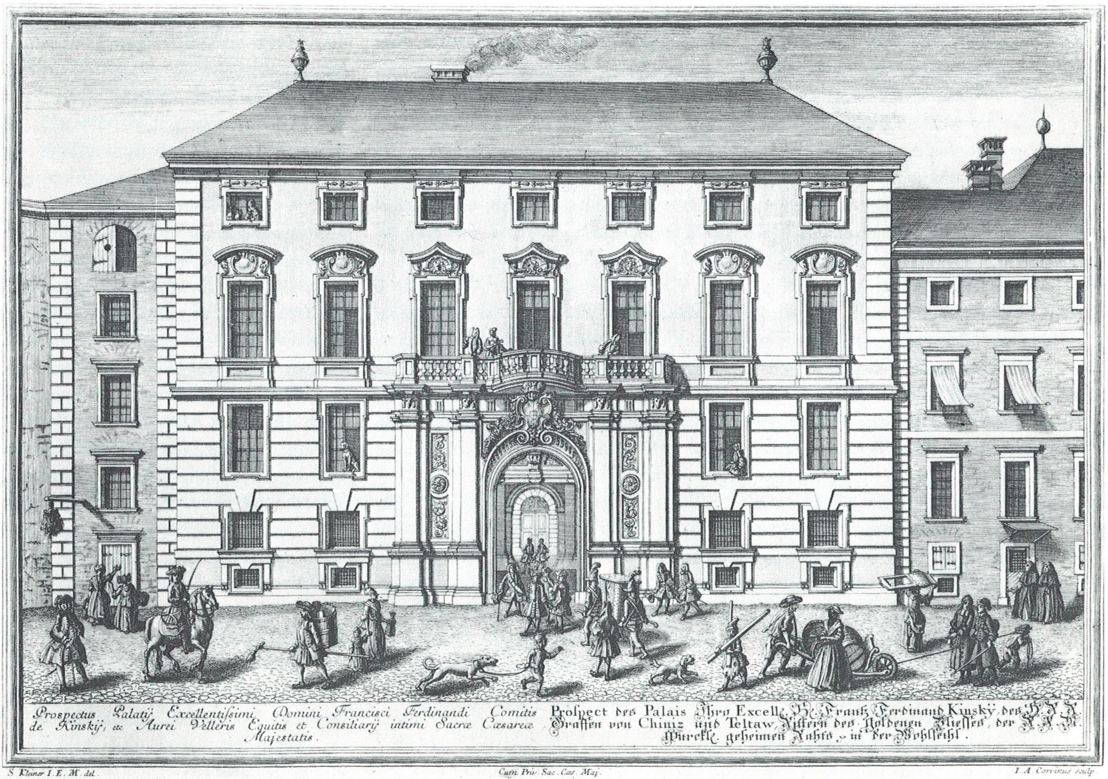 The Palais Rabutin-Kinsky in Vienna's I. district Innere Stadt (Vienna) at Wollzeile #1.